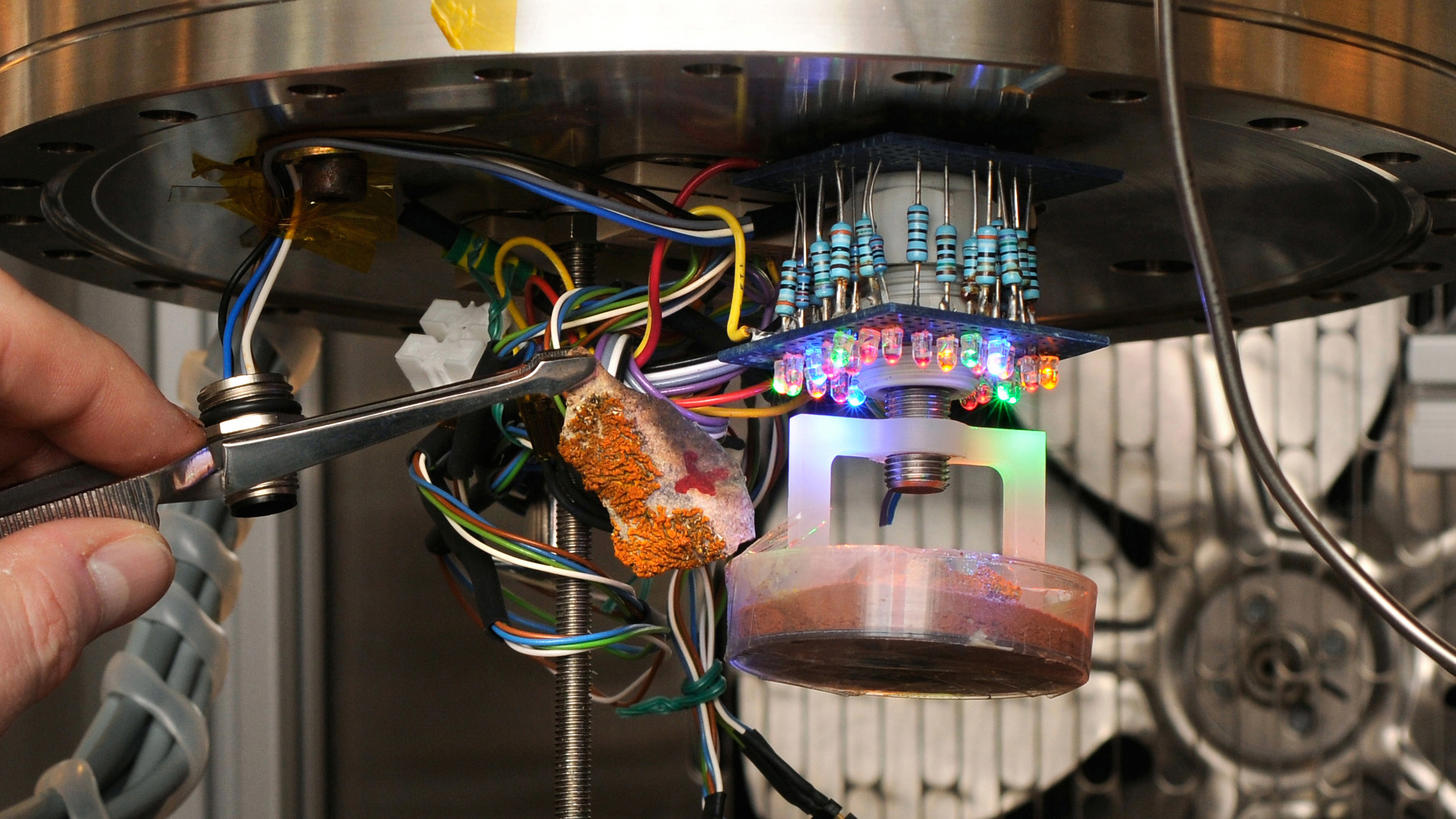 In the Mars simulation chamber, DLR researchers recreated the atmospheric composition and pressure, the planet's surface, the temperature cycles and the solar radiation incident on the surface. The activity of polar and alpine lichen was investigated under these conditions.